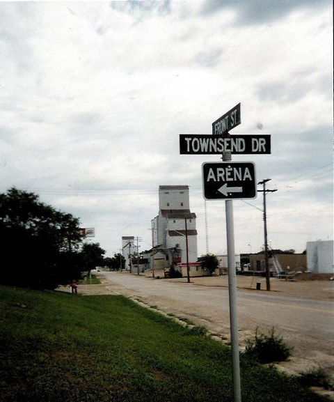 Corner of Townsend Dr. and Front St. in Melita, Manitoba, Canada, with grain elevators in background.